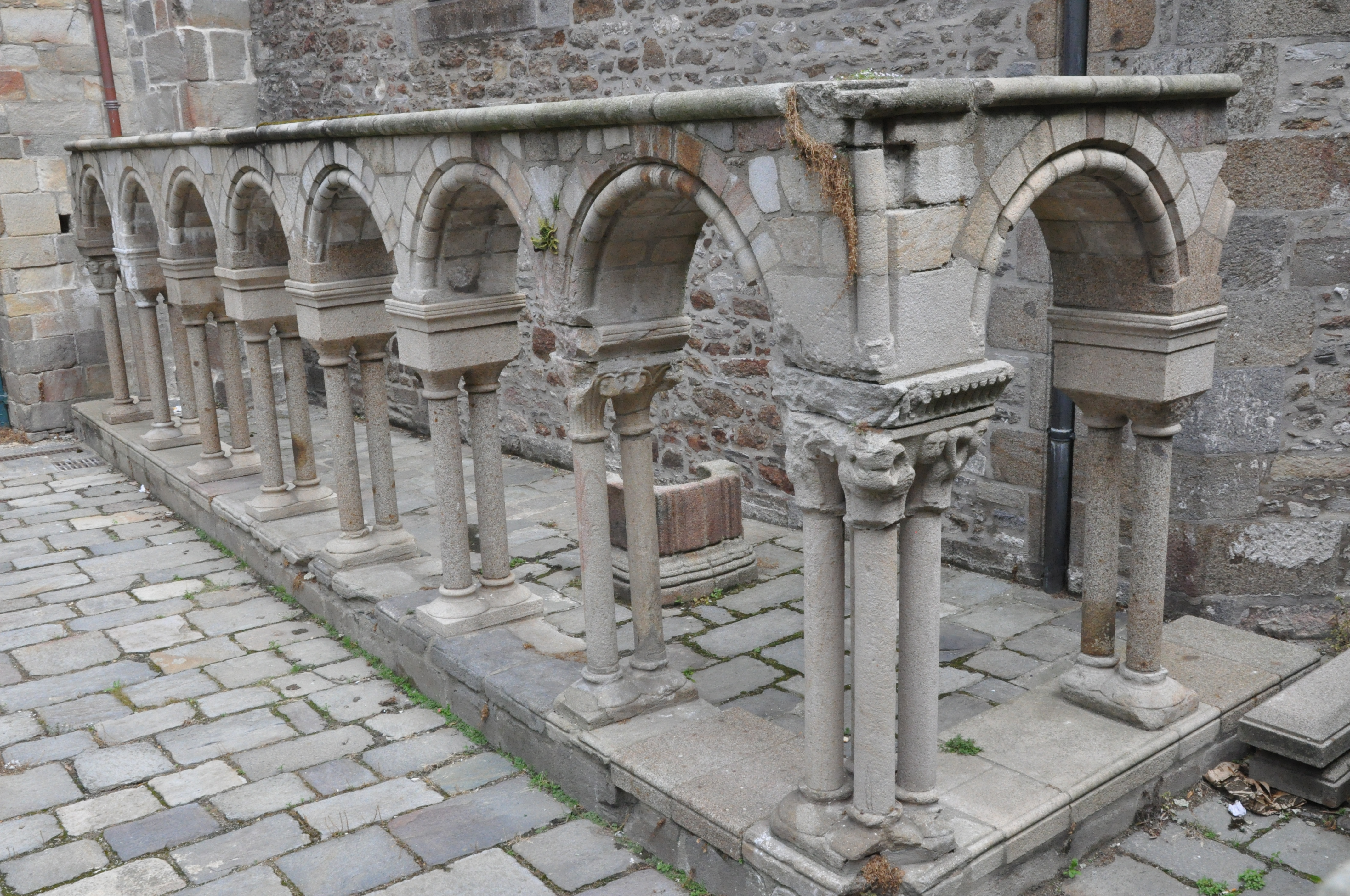 Saint-Malo (France, Brittany), former cloister of cathedral Saint-Vincent